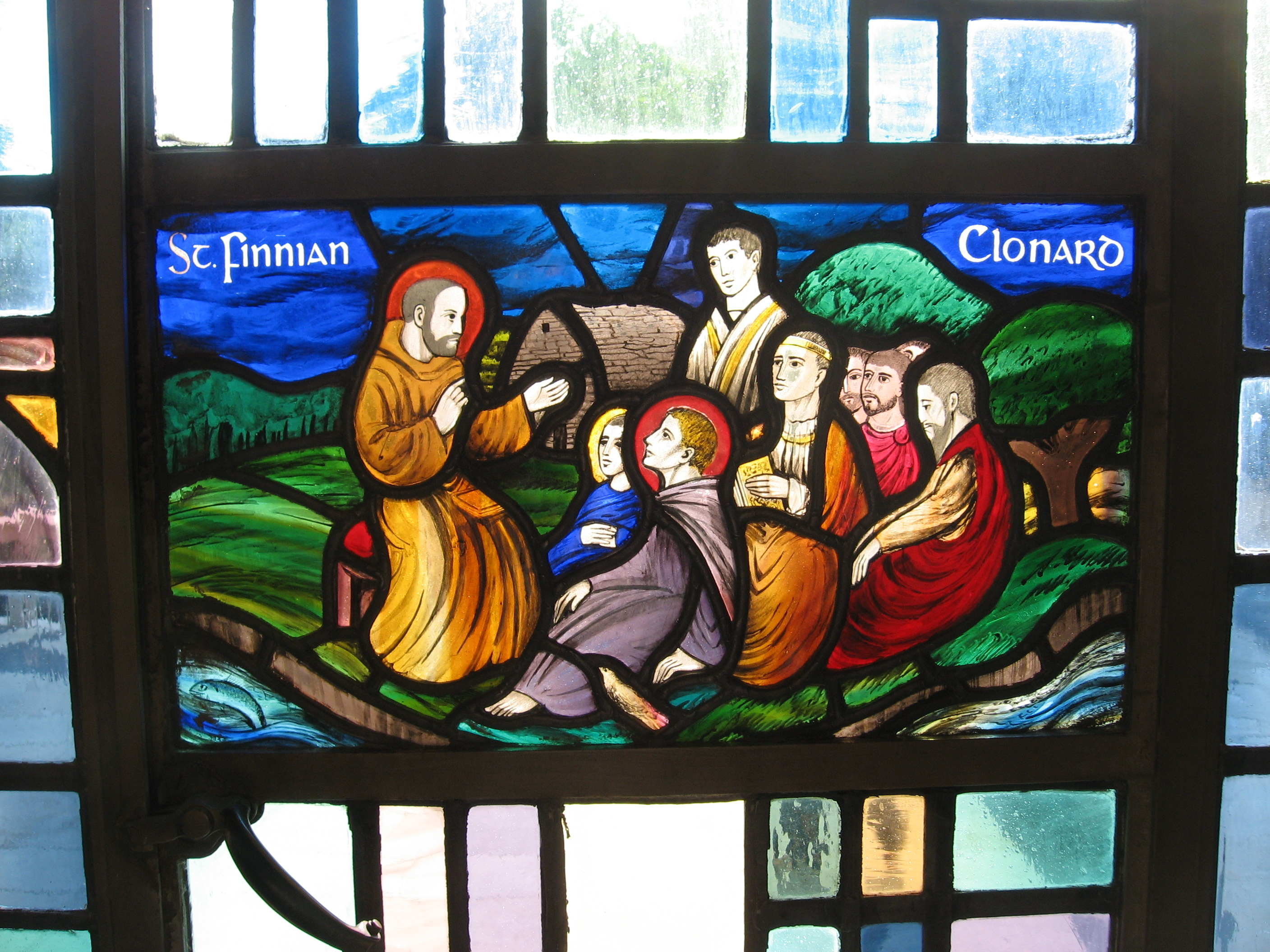 Detail of stained glass featuring St. Finnian of Clonard in the Irish Nationality Room of the Nationality Rooms at the University of Pittsburgh's Cathedral of Learning. Manufactured by the Harry Clarke Studios in Dublin in 1956/57.